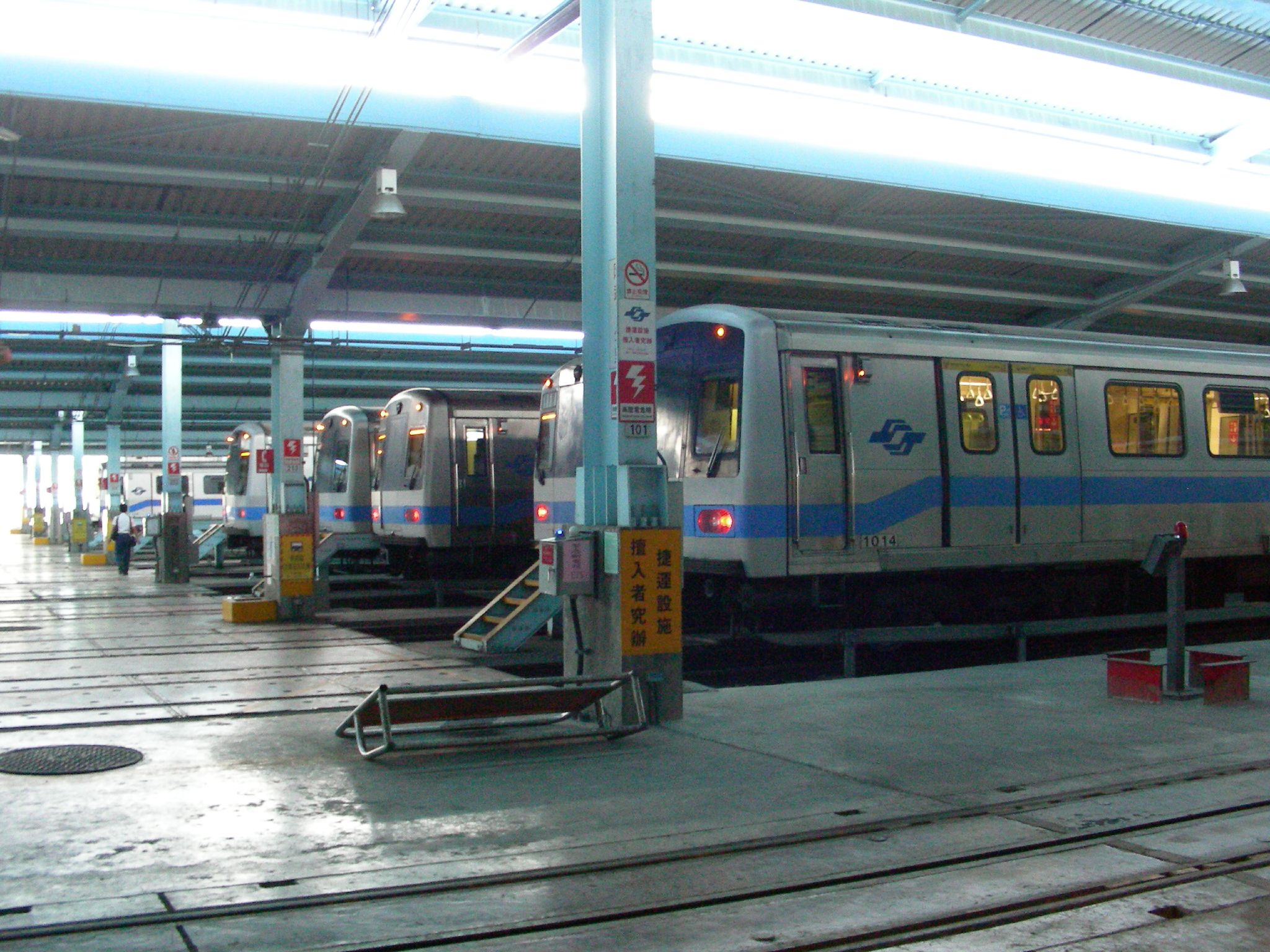 Taipei MRT Beitou Workshop